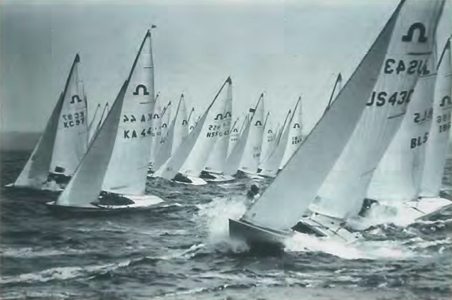 Soling World Championship 1971, Oyster Bay